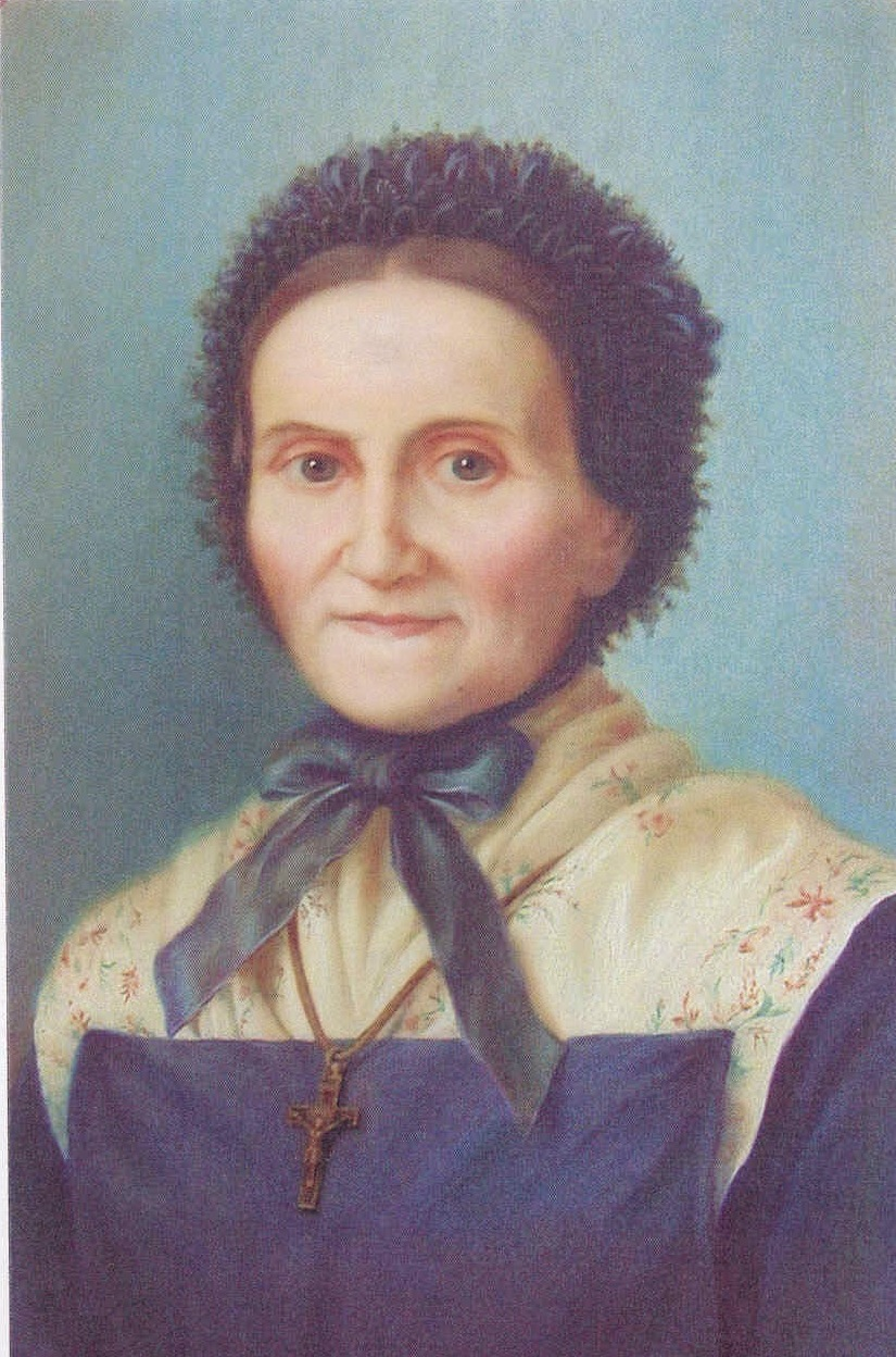 Portrait of Blessed Marguerite Bays (1815-1879).